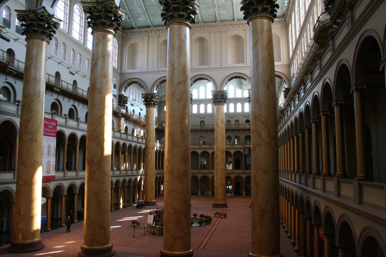 National Building Museum interior in Washington, DC